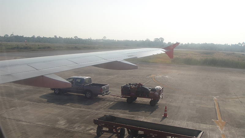 AirAsia Prepared taxi to runway at Nakhon si thammarat Airport